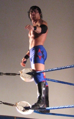 Petey Williams in the ring.